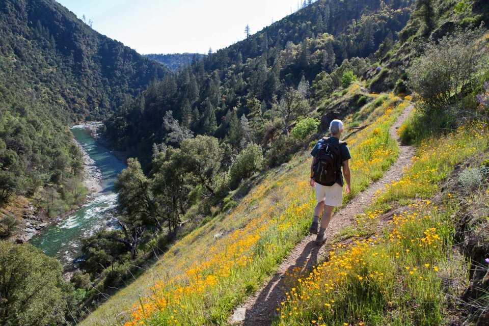 The Stevens Trail is a popular year-round hiking trail in the lower elevations of the Sierra Nevada mountain range. Historically, the trail connected the town of Iowa Hill with the city of Colfax, both in Placer County, California. The current trail extends 4.5 miles along the northwestern slope of the North Fork of the American River Canyon. It begins at the trailhead in Colfax and ends at the confluence of Secret Ravine and the North Fork of the American River.